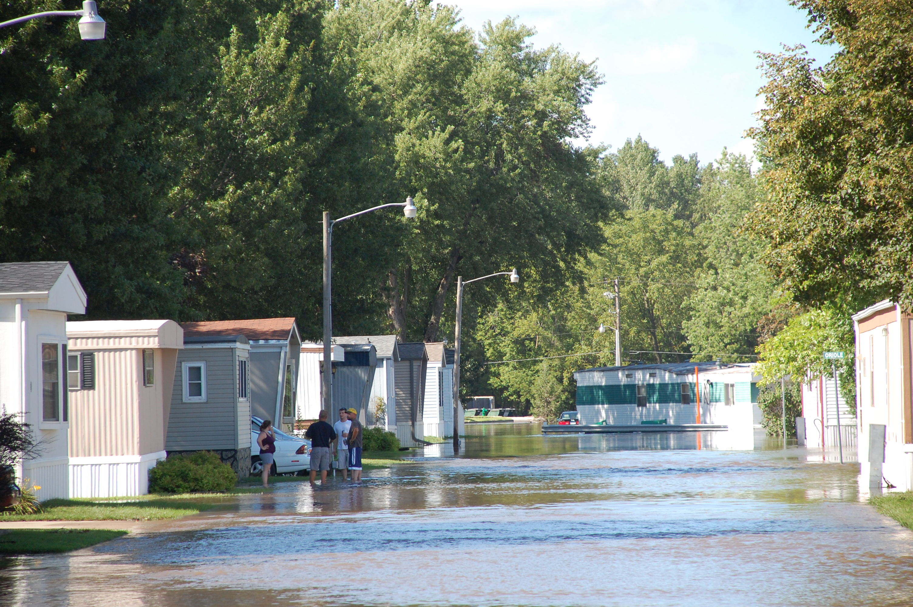 Ames, IA, August 11, 2010 -- Meadow Lanes Estates Mobile Home Park residents discuss their next move after waters of Squaw Creek inundated their area. Hundreds of residents were evacuated after three nights of heavy rain in the area. Jace Anderson/FEMA